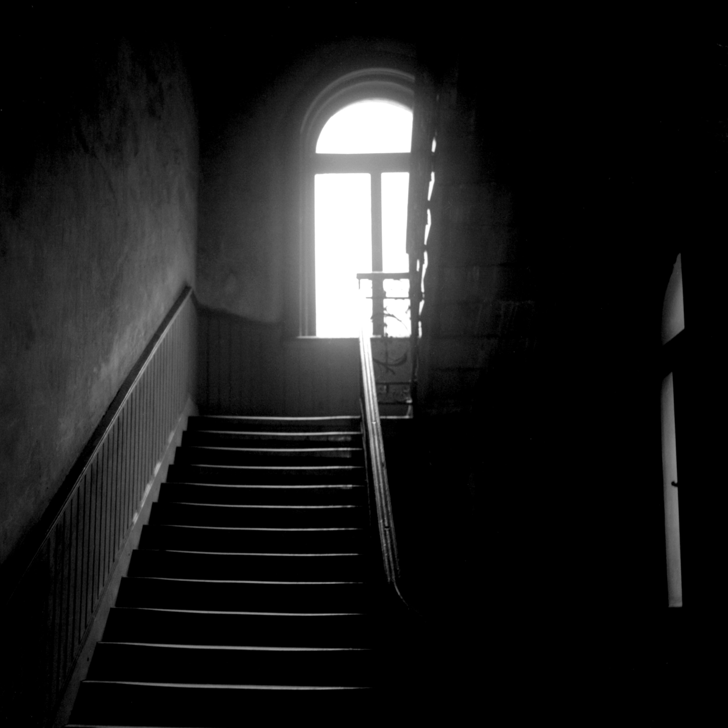 Wood - staircase feeleng - Nineteenth-century house in Szeged -1977.